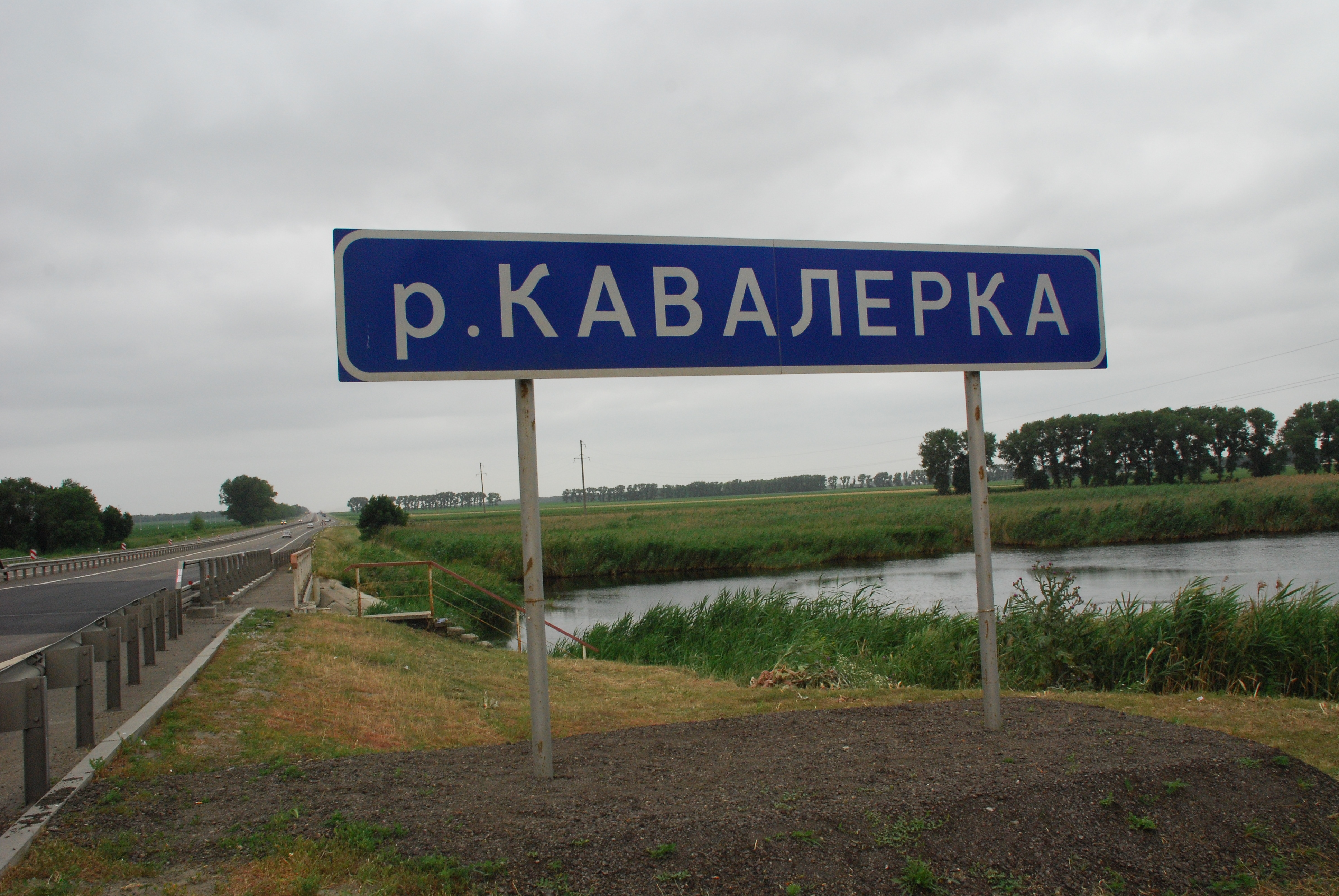 Kavalerka River guide sign.